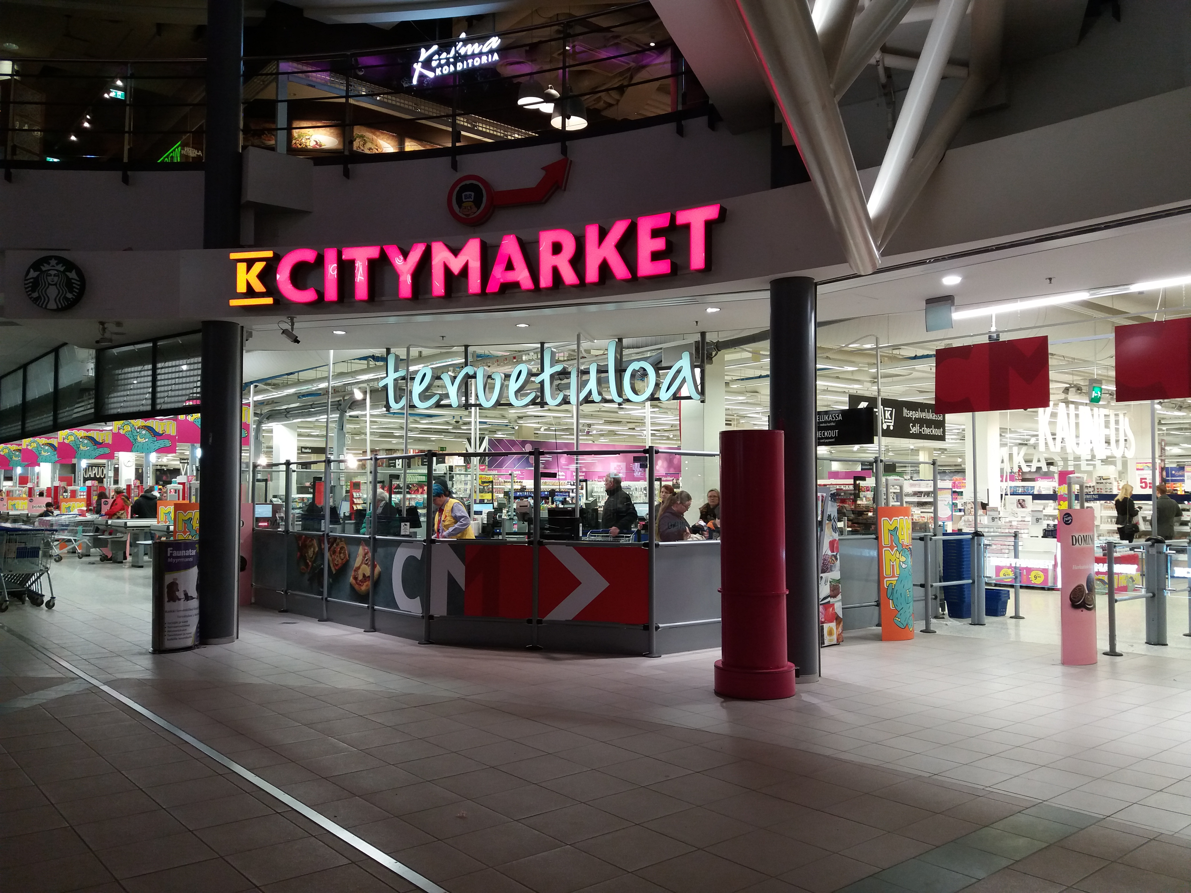 K-Citymarket in Myyrmanni shopping mall in Myyrmäki, Vantaa, Finland on 20 March 2017